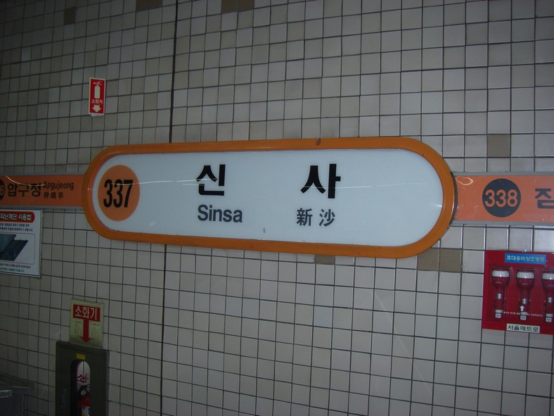 Sinsa Station